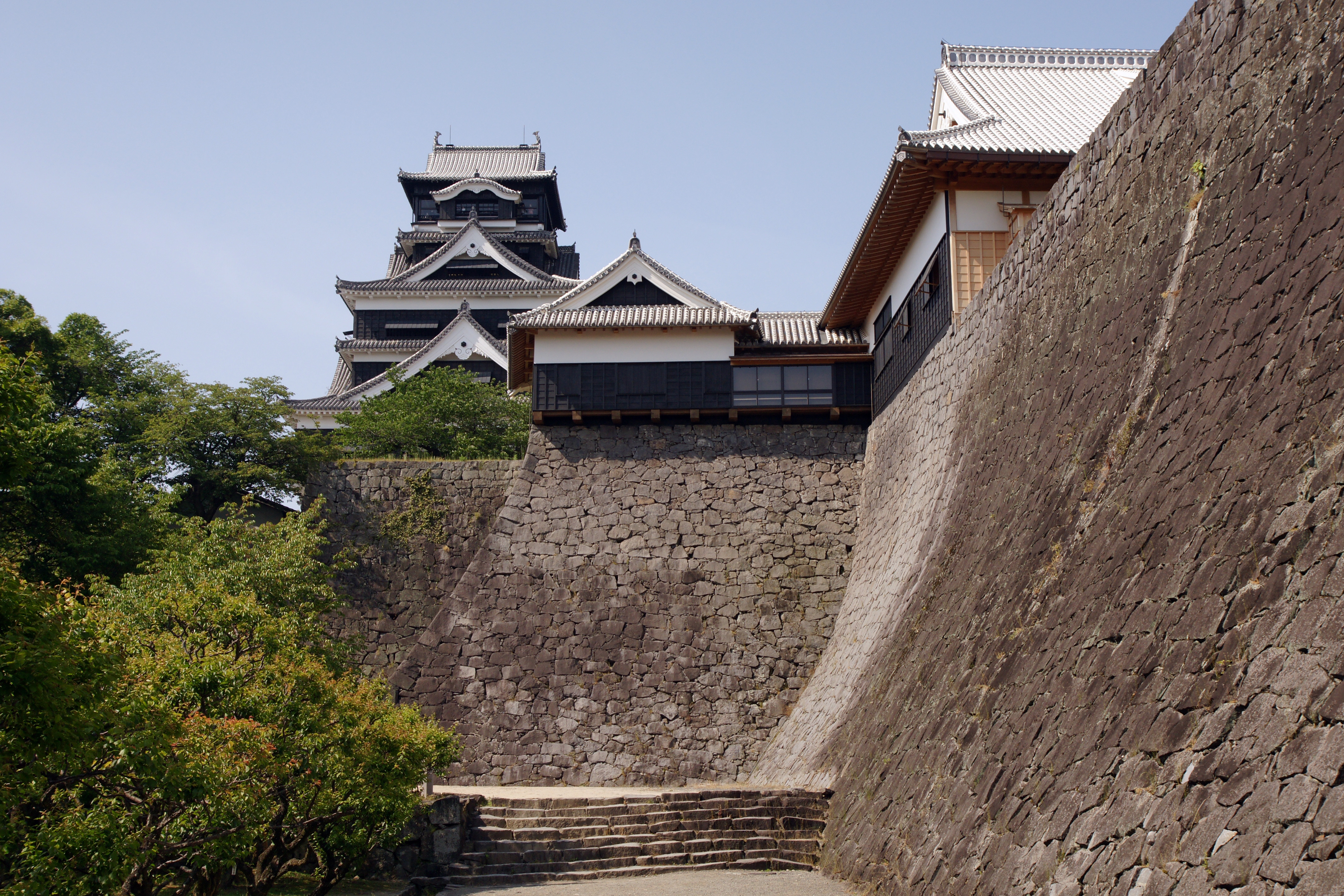 Kumamoto Castle, Kumamoto, Kumamoto prefecture, Japan